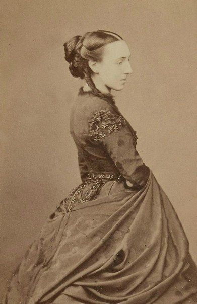 Великая княгиня Ольга Фёдоровна (Цецилия Баденская)